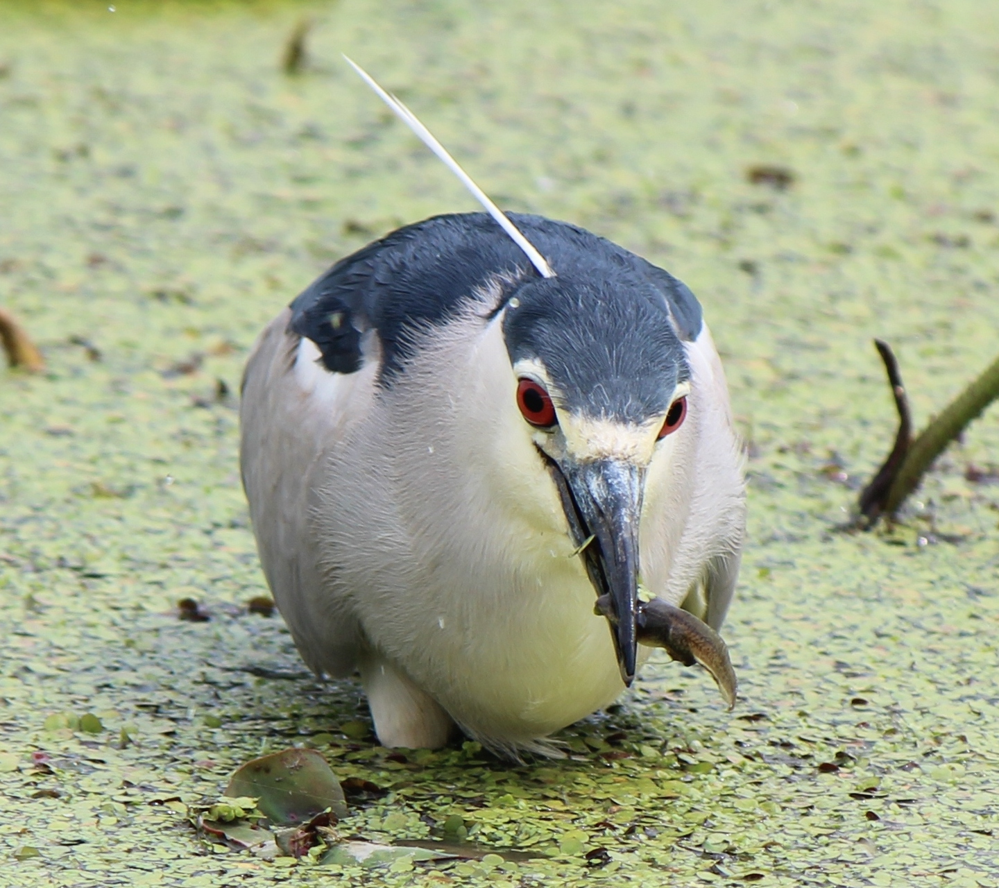 Nycticorax nycticorax (Black-crowned Night Heron) eating tadpole, in Japan.